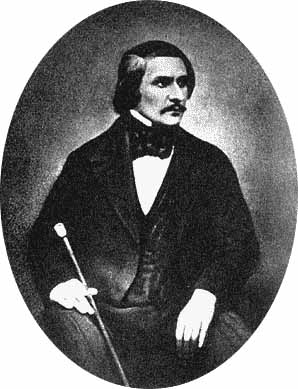 Nikolai Gogol.